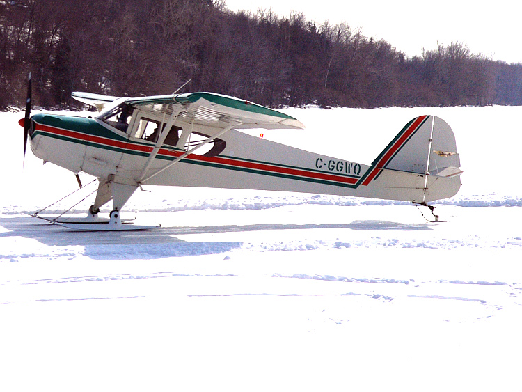 I took this photo of a Taylorcraft F-19 (C-GGWQ)